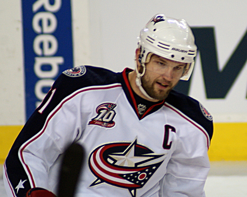 Rick Nash, born June 16, 1984 in Brampton, Ontario, is a Canadian professional ice hockey player currently with the Columbus Blue Jackets of the National Hockey League. This NHL game action photo was taken December 13, 2010 at the Scotiabank Saddledome in Calgary, Alberta.